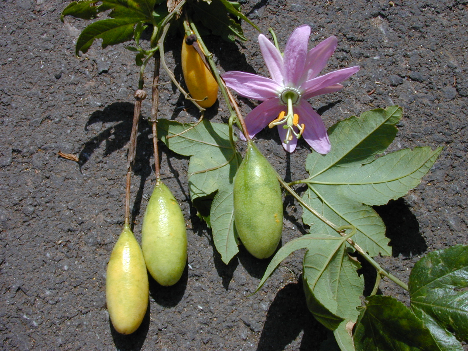 Passiflora tarminiana (flower and fruit). Location: Maui, Kula